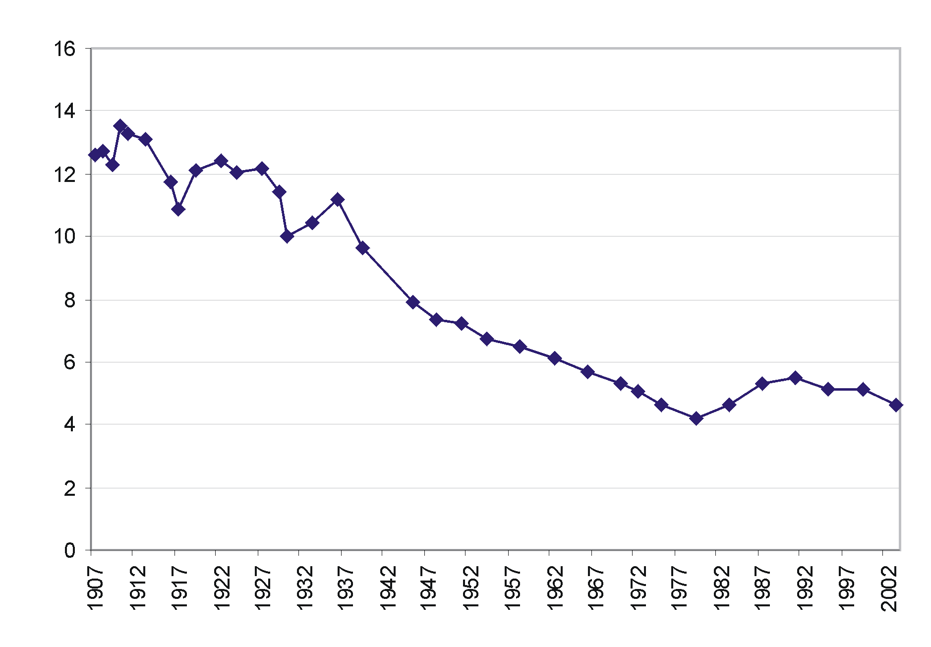 Chart of the percentage of votes achieved by the Swedish People's Party in Finland in national parliament elections.